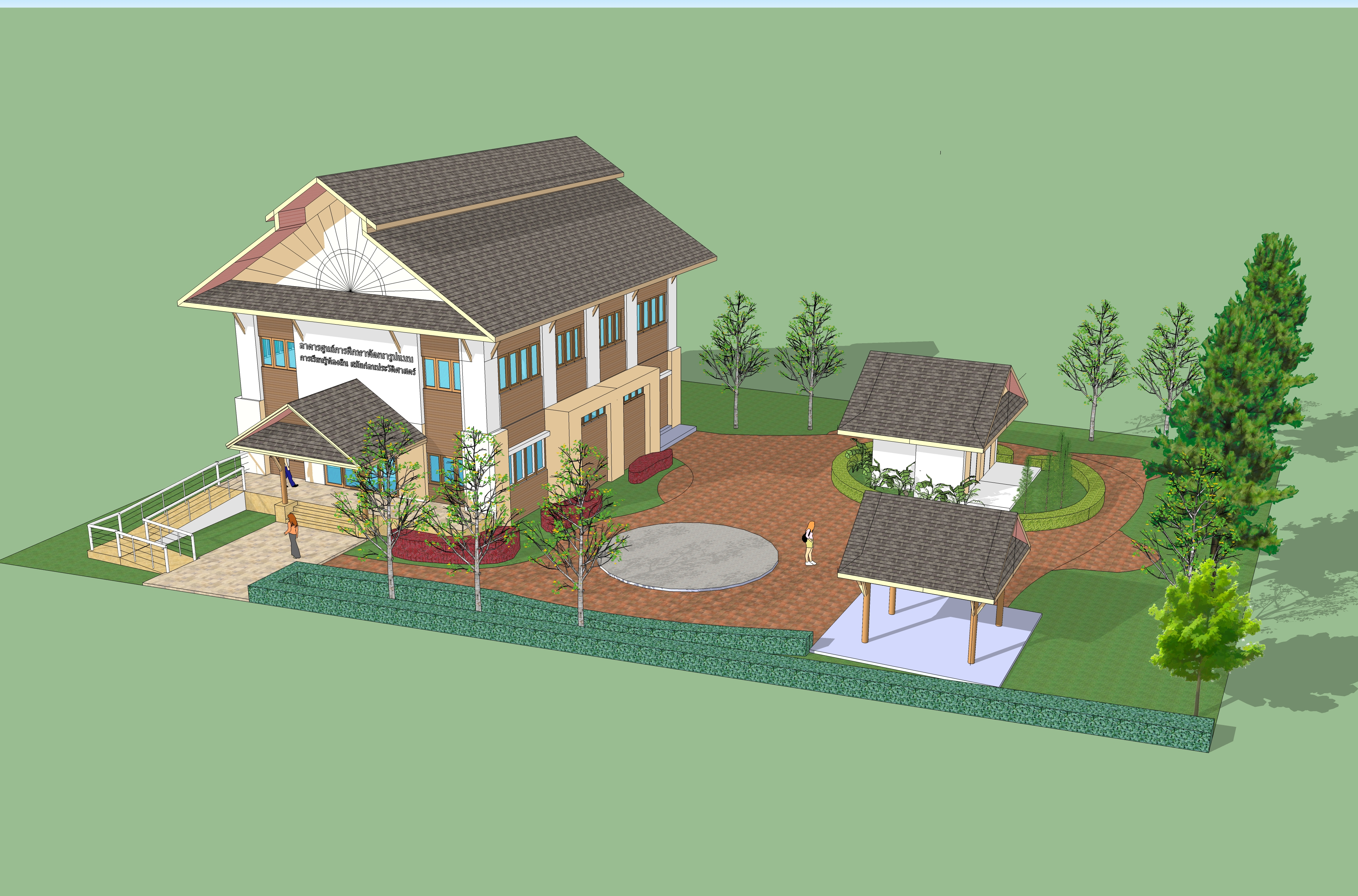 Museum Ban Non Wat